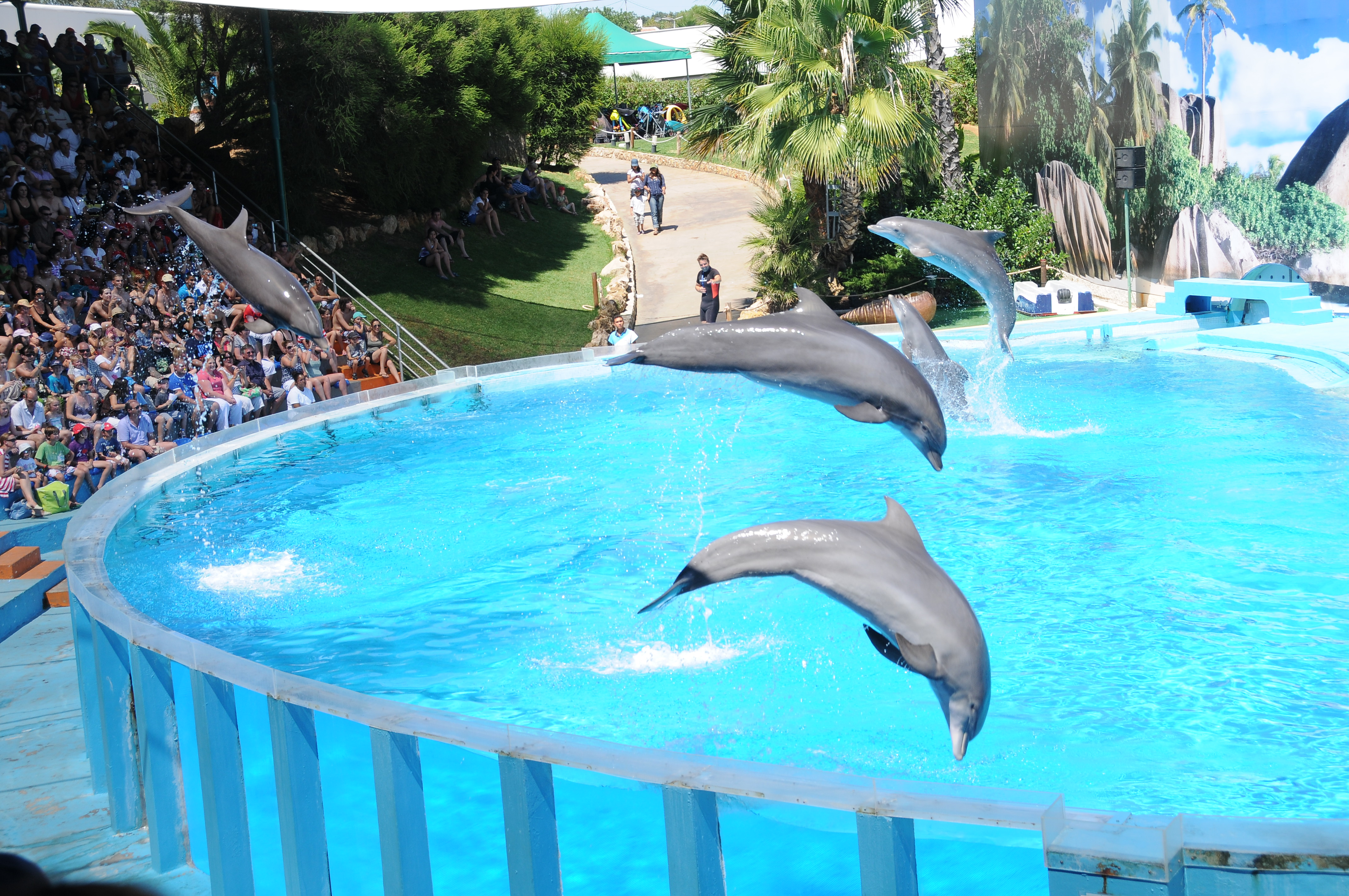 Performing dolphins at Zoomarine, Albufeira, Portugal